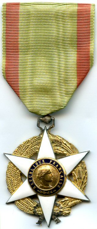 Knight of the Order of Agricultural Merit (France) obverse